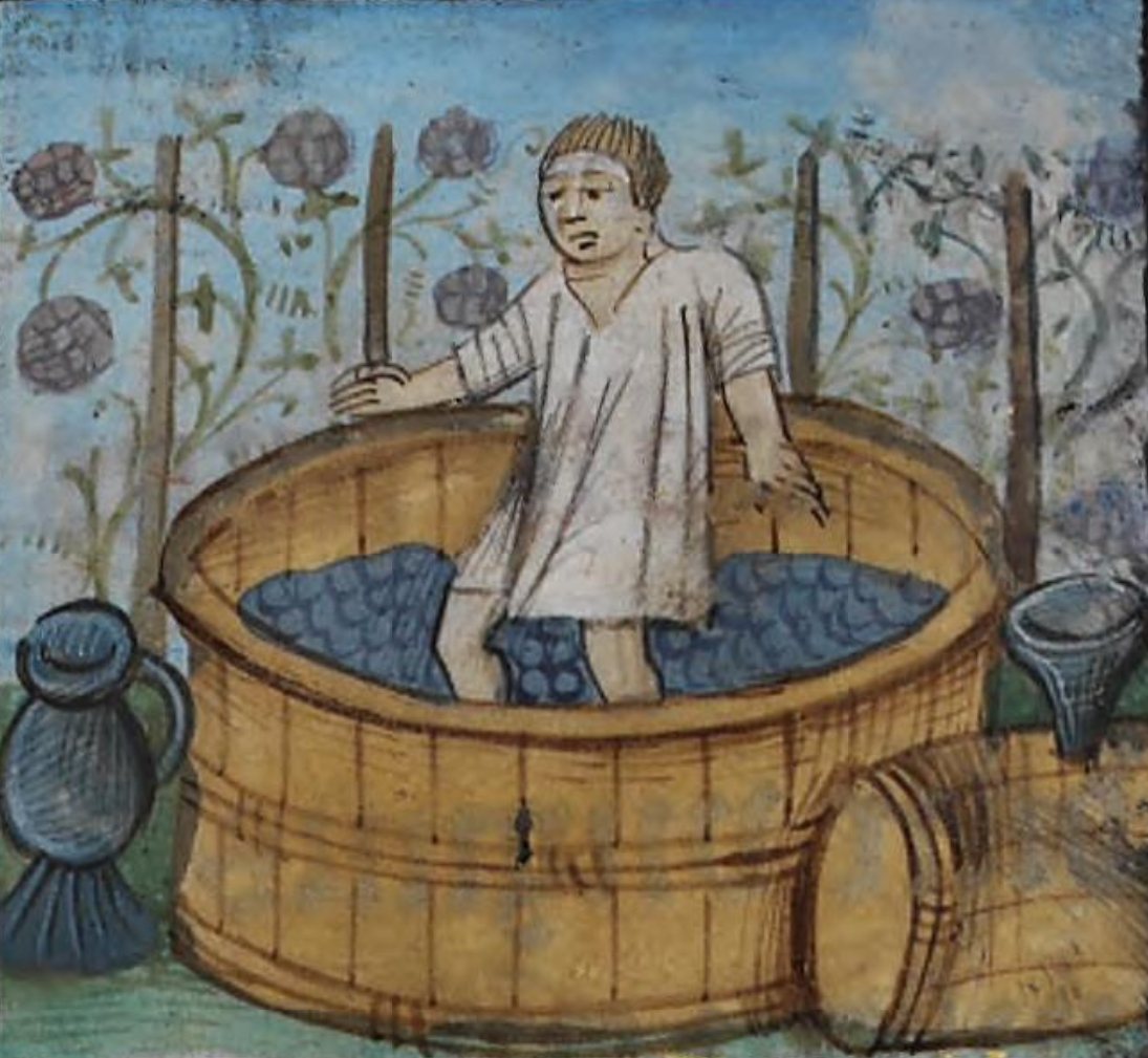 A medieval Book of Hours probably written for the De Grey family of Ruthin c.1390